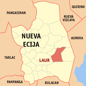 Map of Nueva Ecija showing the location of Laur